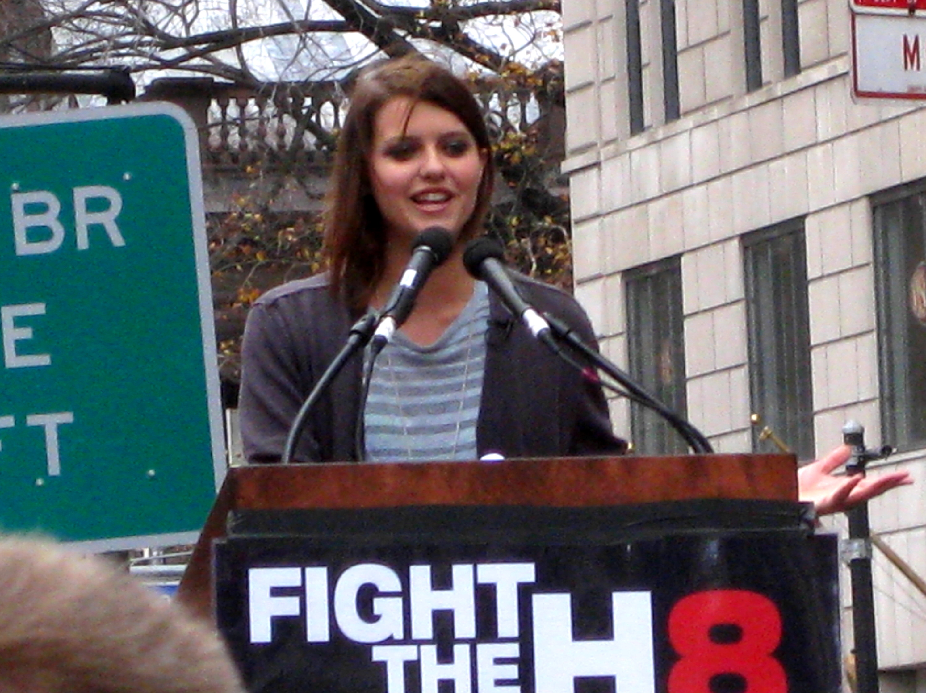 American model and television personality Kim Stolz speaking at the Rally for Equal Marriage in New York City.